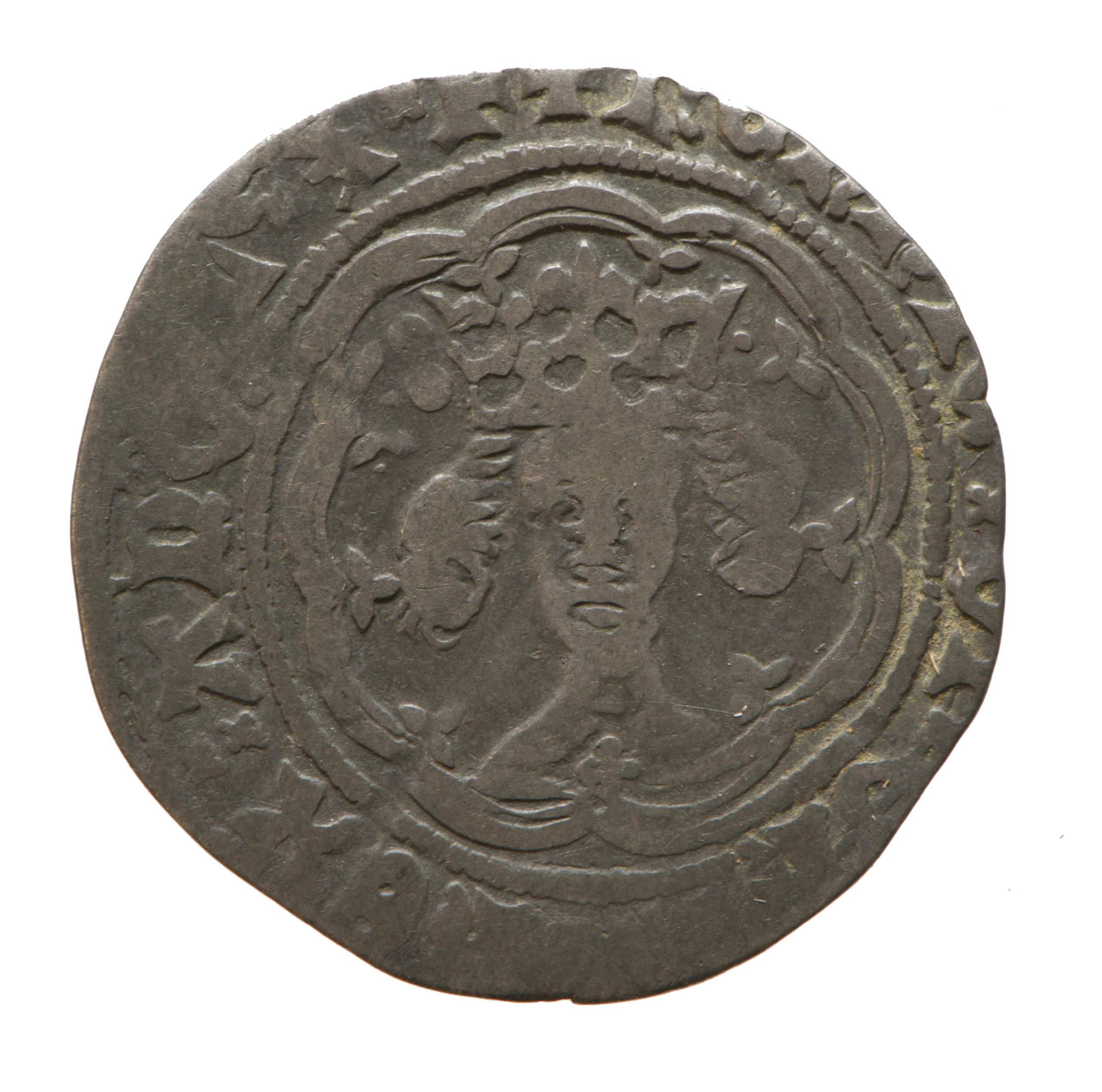 Obverse (front) of a silver half groat of w: Henry IV of England Crowned head facing forward